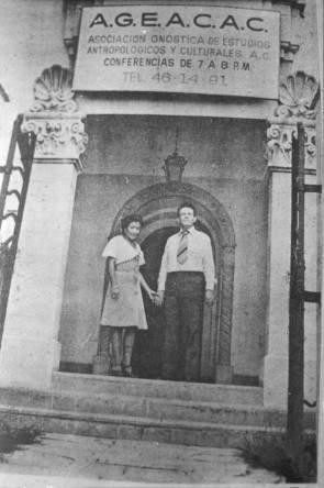 The V.V.M.M. Samael and Litelantes on the front of their first association : A.G.E.A.C.A.C.